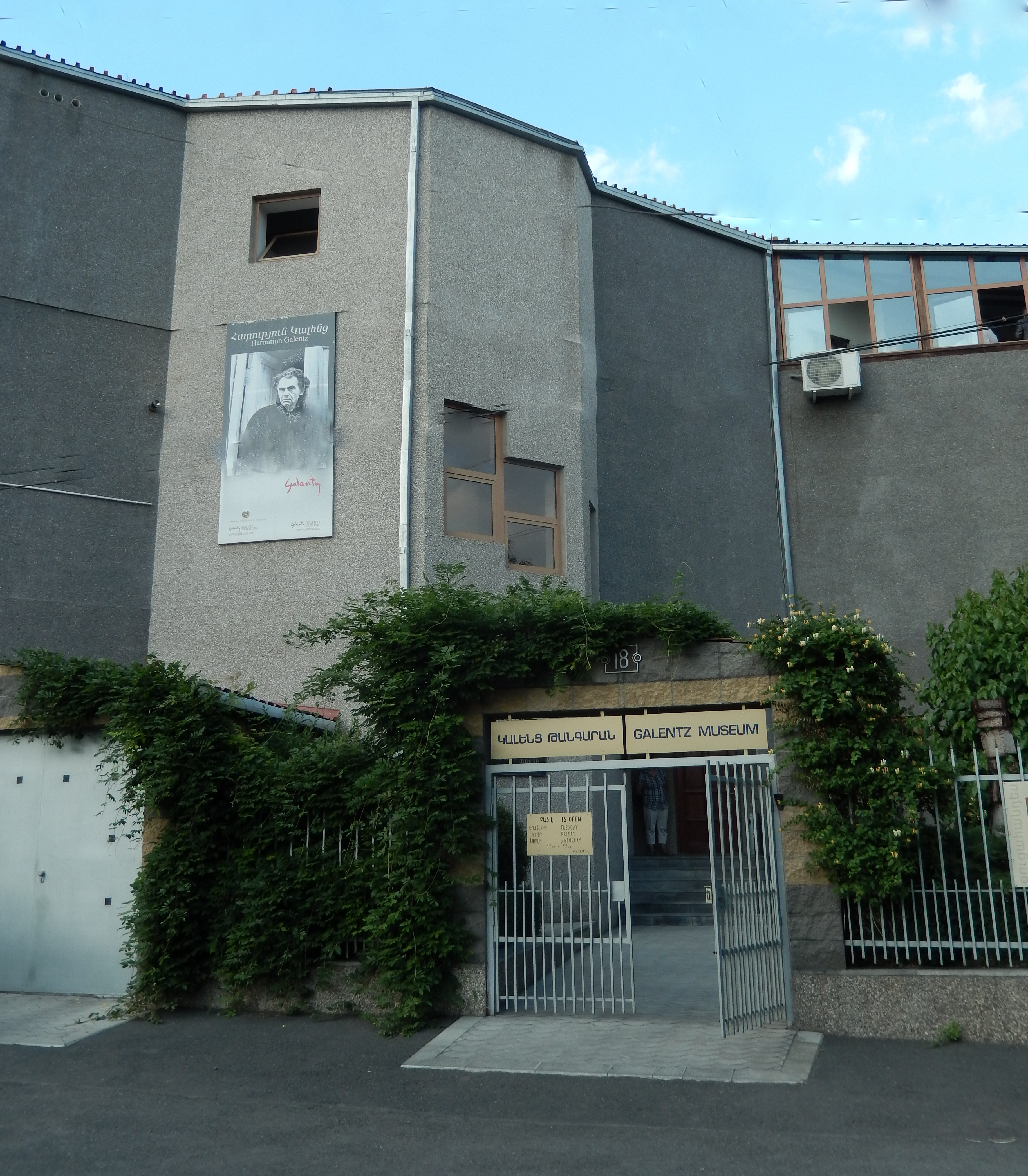 Կալենց թանգարան